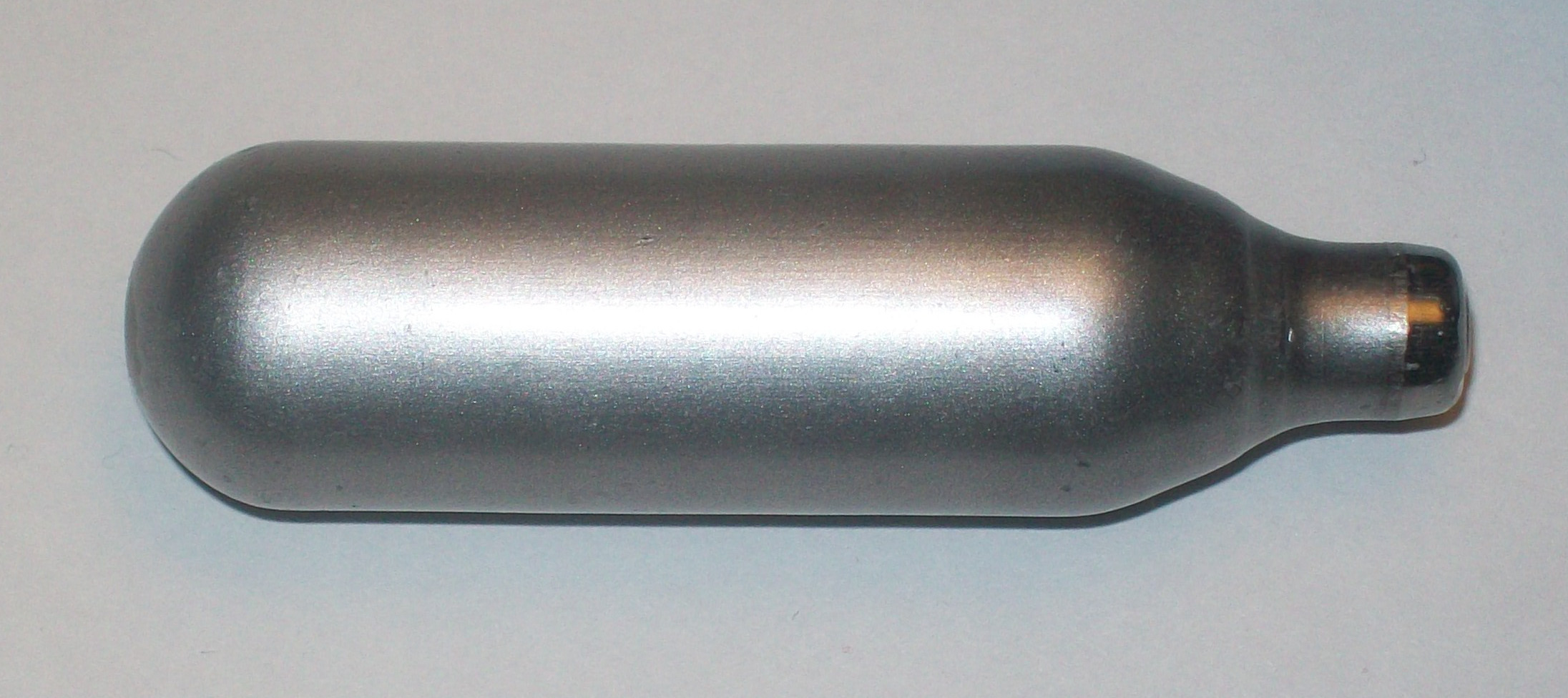 Sparkwhip brand (iSi) nitrous charger.